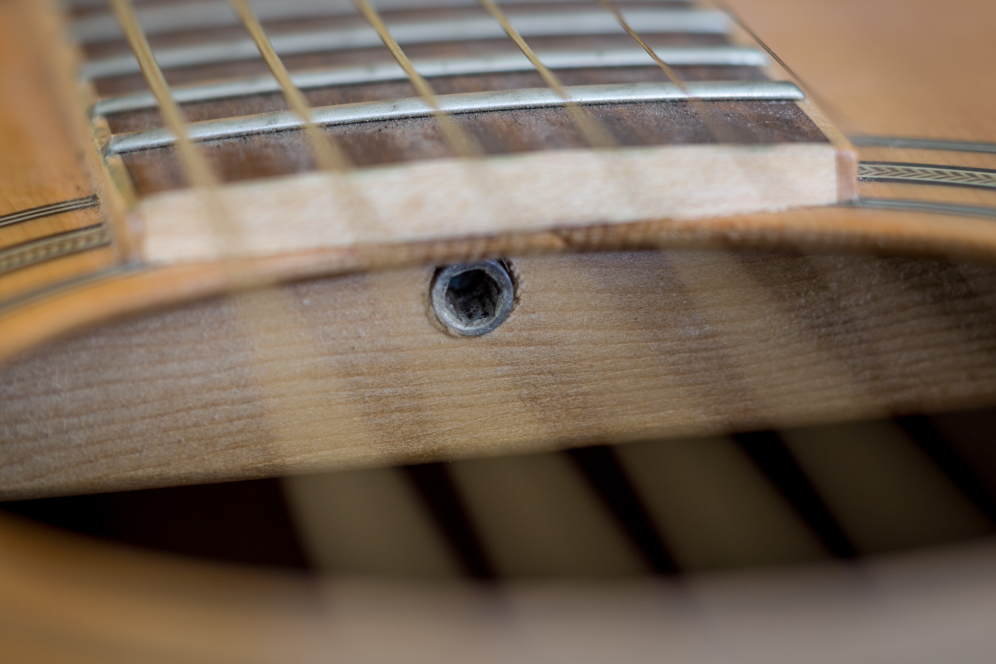 Adjustment bolt for the truss rod of a Tanglewood Earth 200 acoustic guitar, visible through the sound hole.